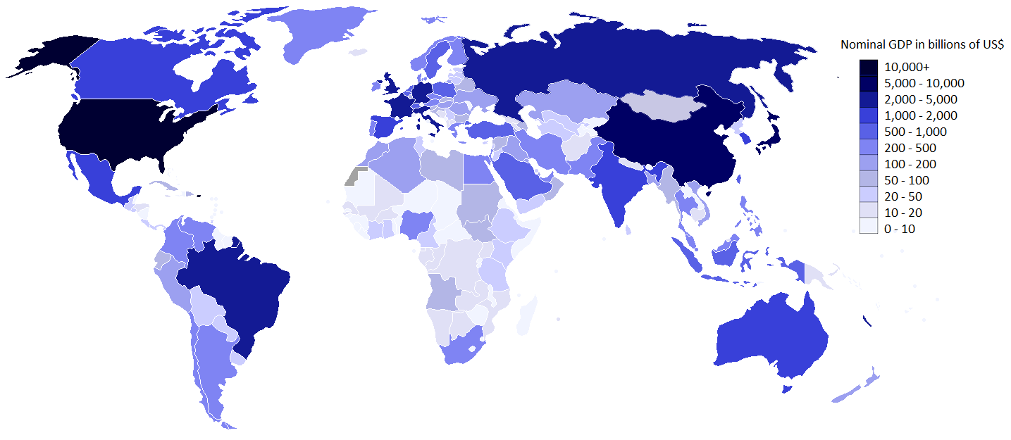 Map of countries by GDP (nominal) in US$